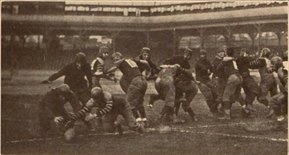 1908 Pitt versus Marietta football game action